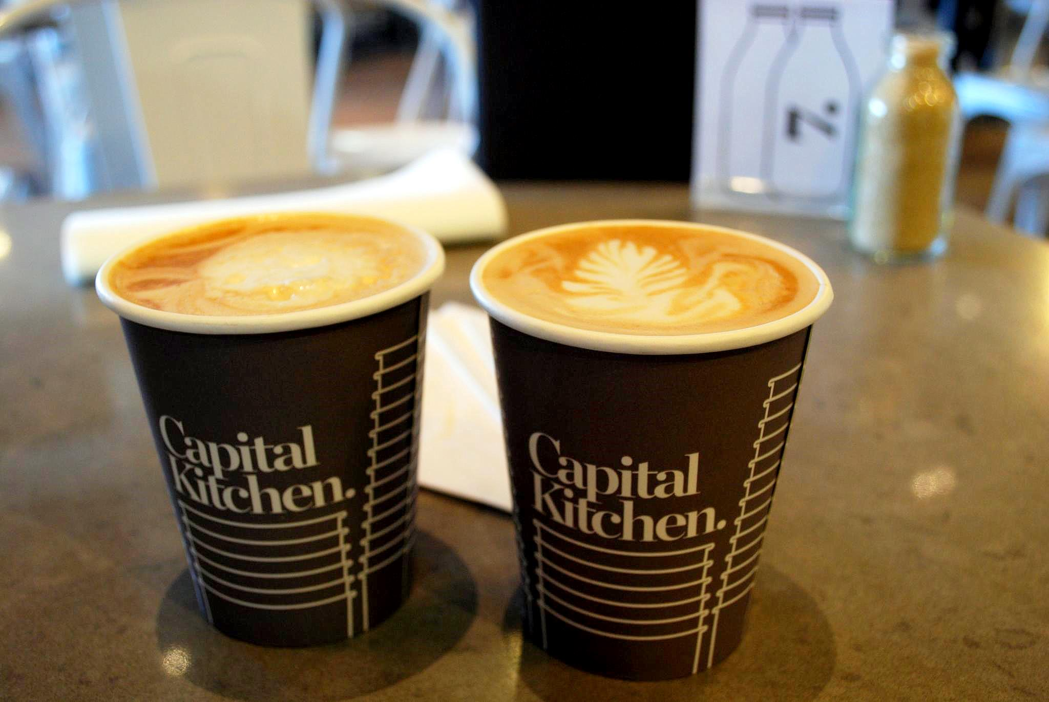 Soy Caffee Latte and Caffe Latte - Capital Kitchen AUD3.50, soy 50c